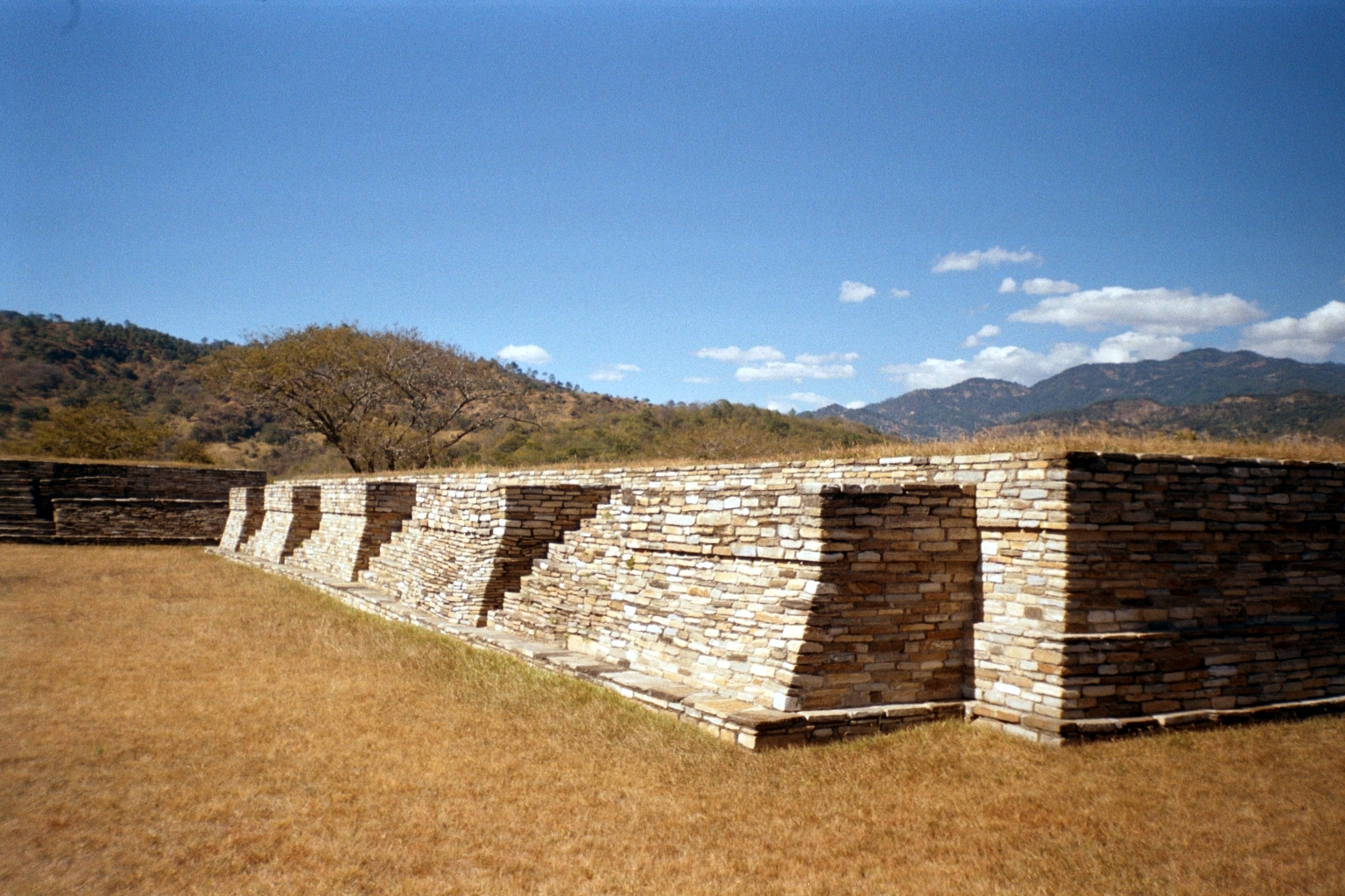 View of Mixco Viejo. Structure A 5, with A 6 behind.